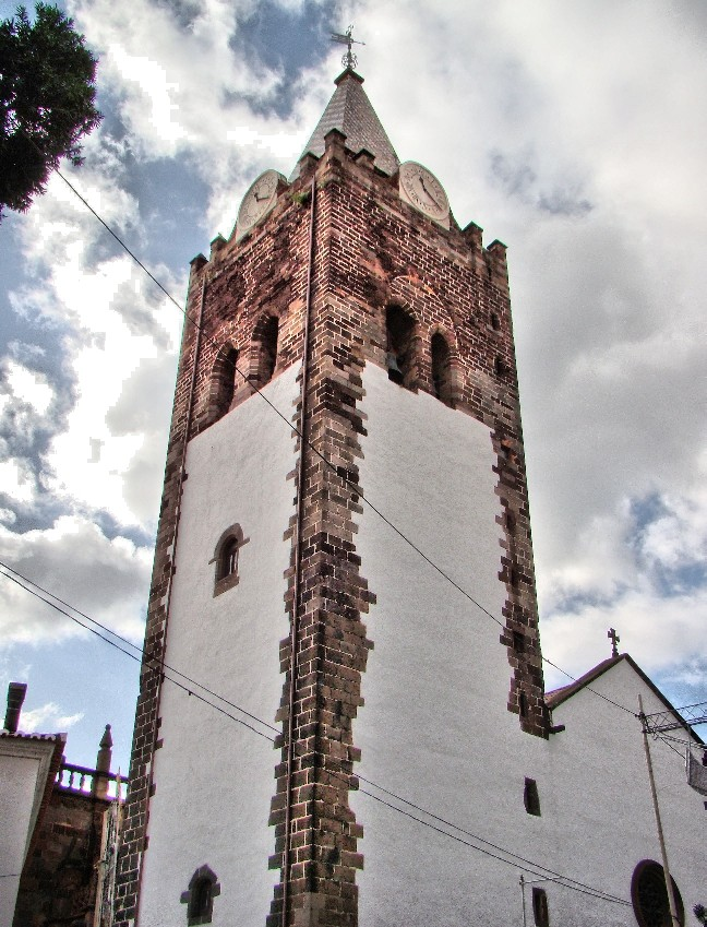 Sé Catedral tower